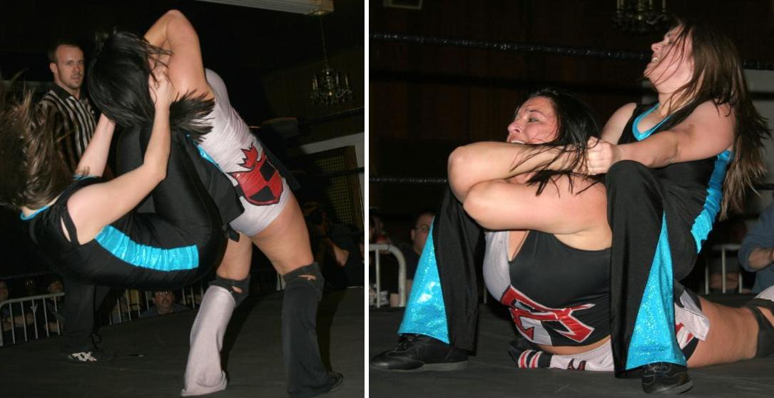 Jetta performing her stranglehold lungblower, transitioned into a stranglehold submission, on Portuguese Princess Ariel